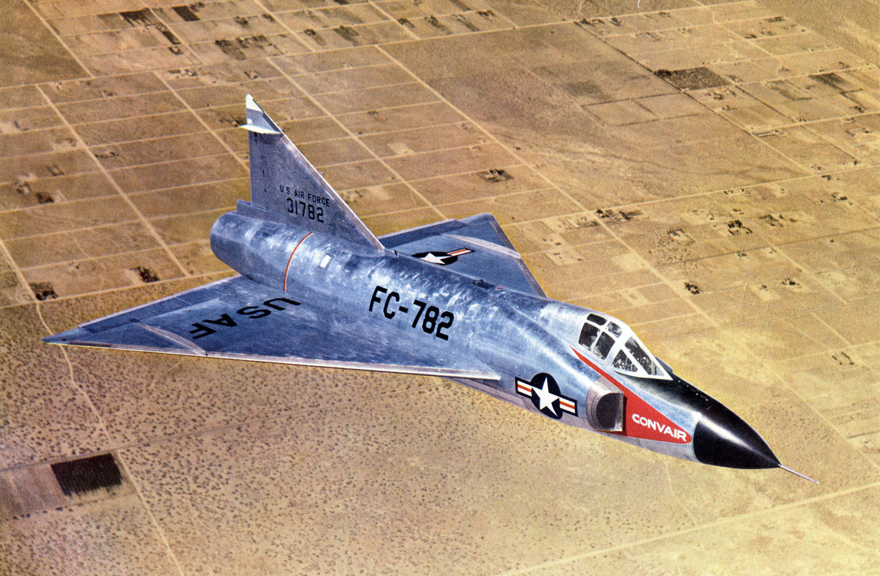 No.4 Convair YF-102 53-1782